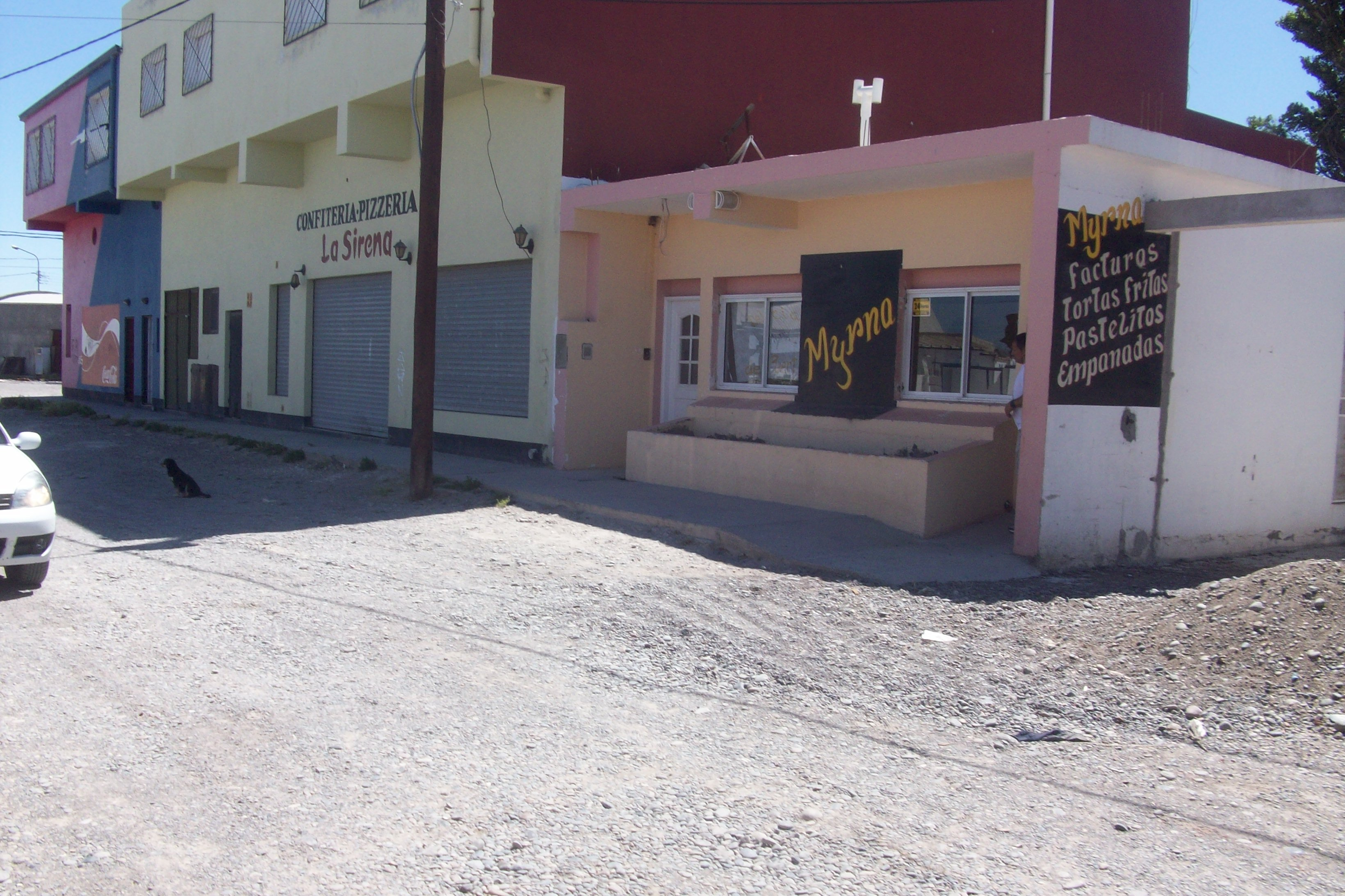 Local comercial de Puert Rawson.